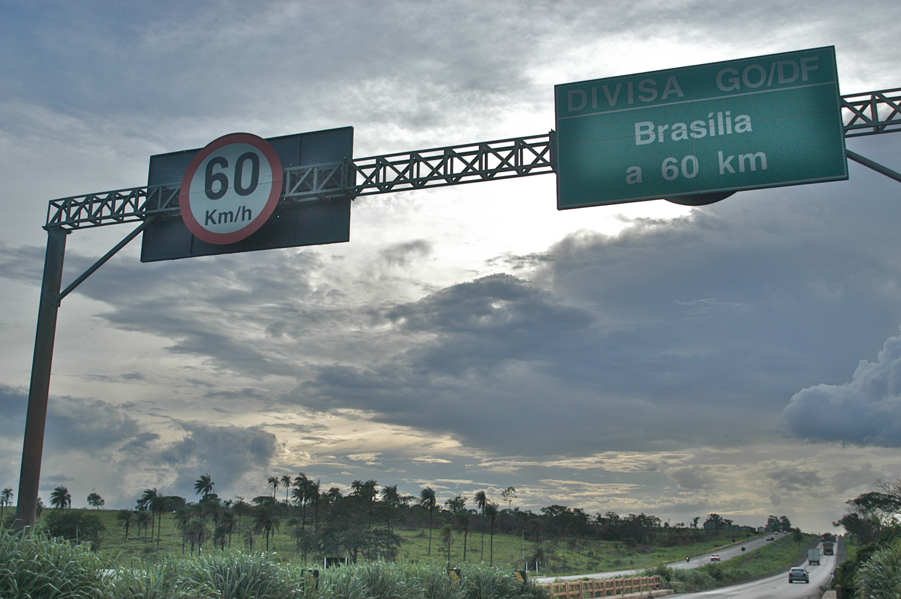 BR 020 on the border GO-DF W-E